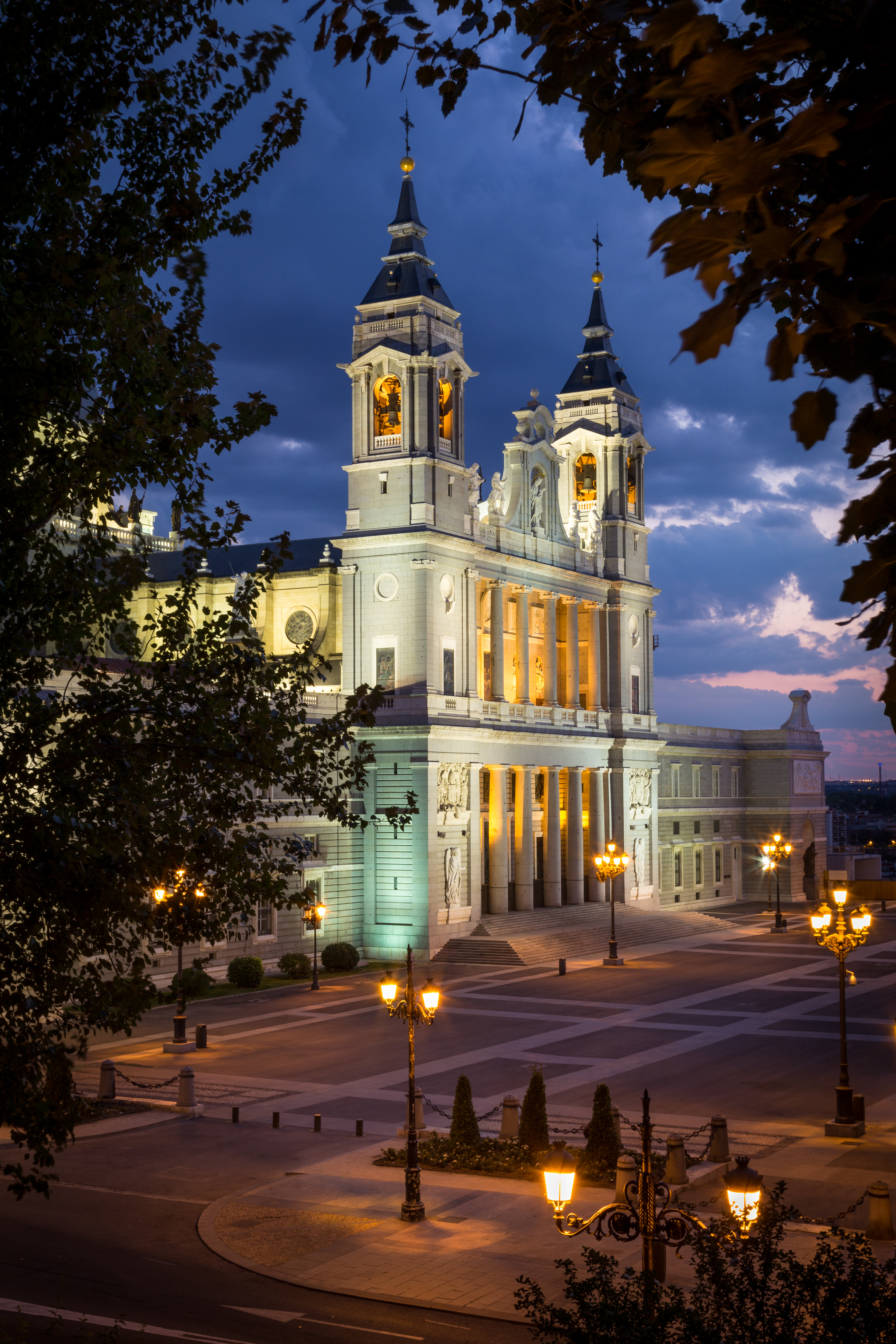 Facade of the Almudena Cathedral at dusk, Madrid. 01S.